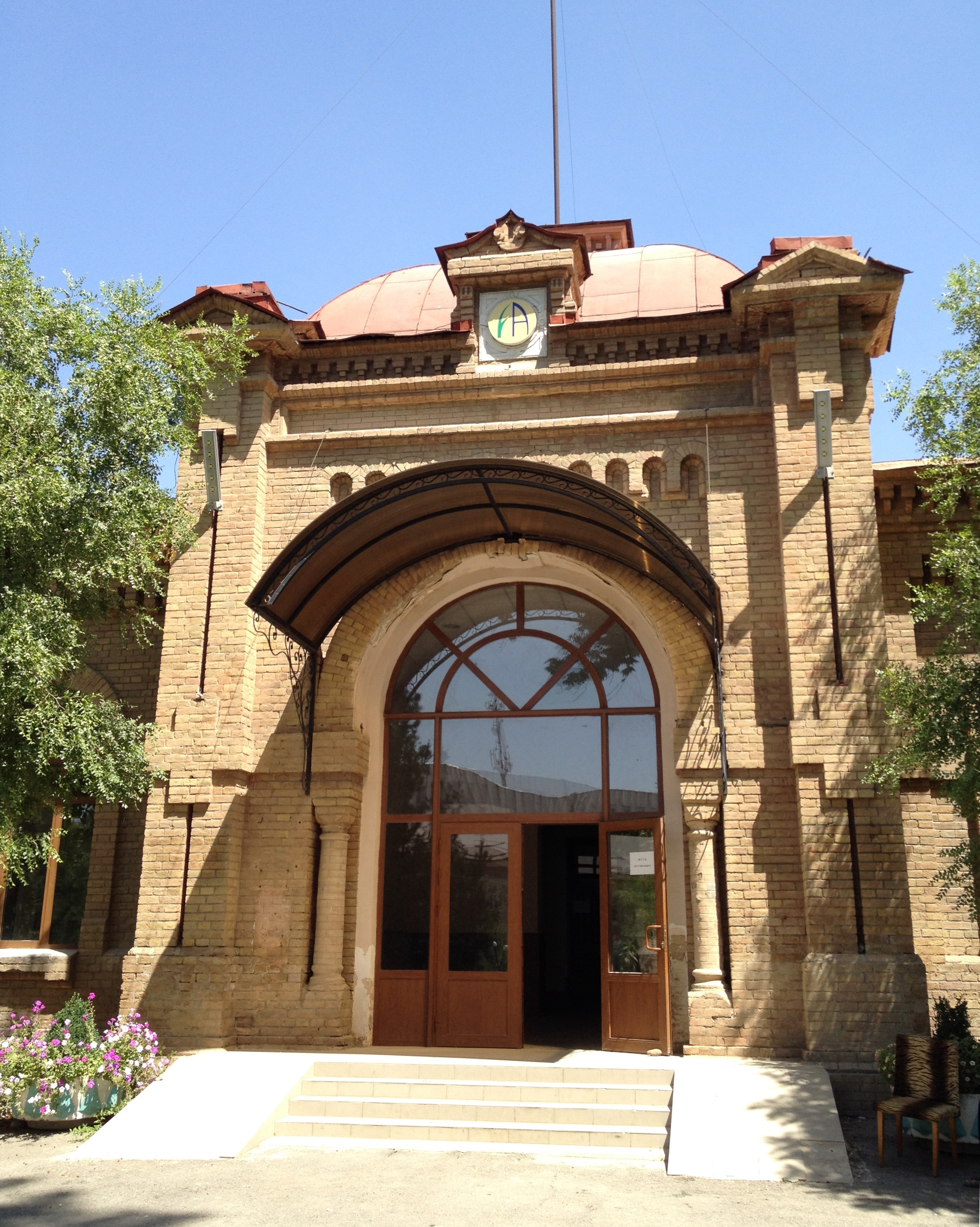 Entrance of building of Kaufman orphanage (Institute of Power engineering and automatics in present) in Tashkent